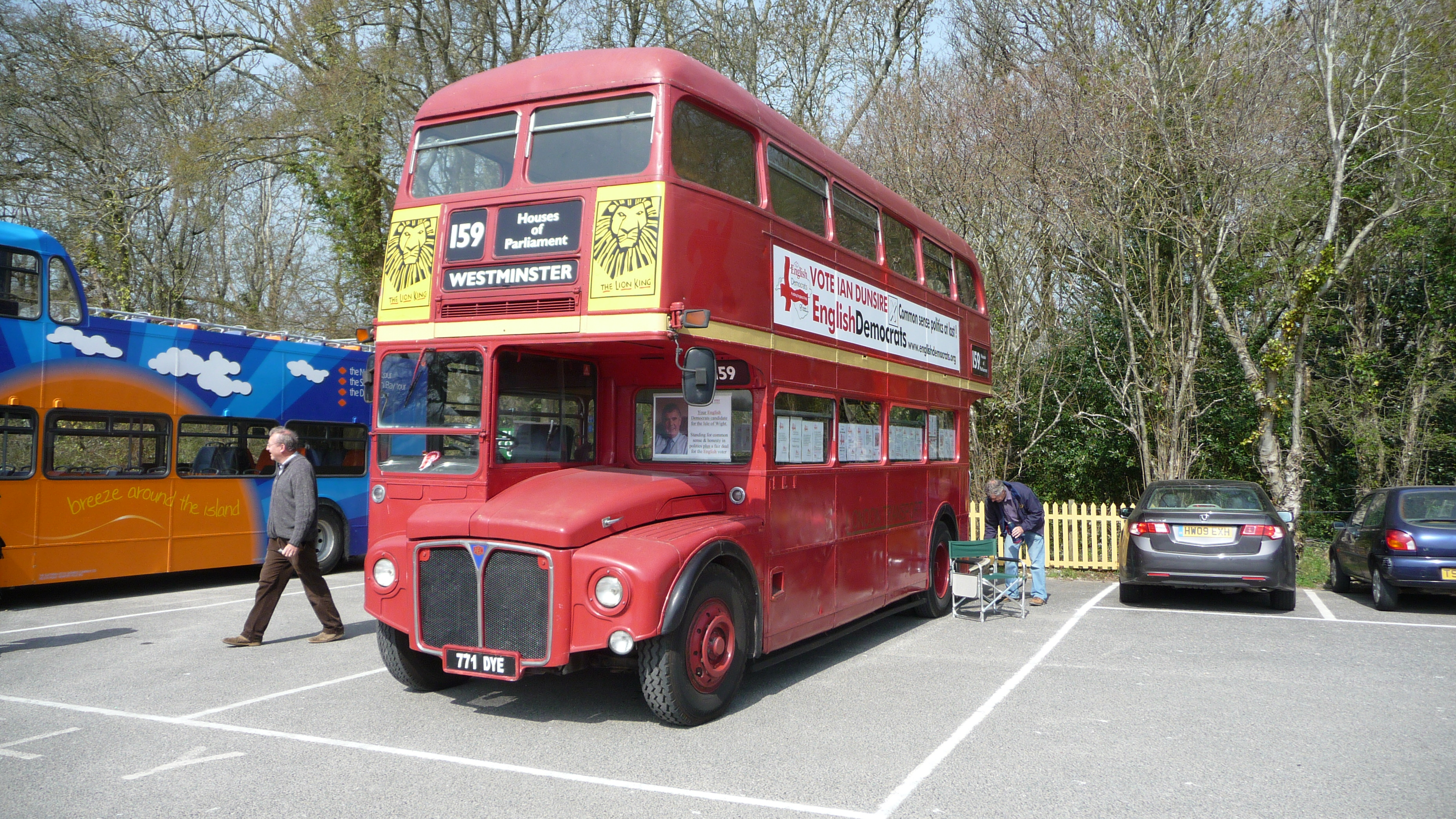 Seen at the 2010 Bustival event, held by Southern Vectis, at Havenstreet, Isle of Wight, railway station showground. English Democrats 771 DYE, an AEC Routemaster (RM1771), used by the party for promotional purposes. There was a bit of controversy about this, because Southern Vectis wouldn't allow it into the showground with the other buses, whereas their Scania 1103, which wears "island thinkers" branding featuring Conservative Island MP Andrew Turner was allowed in, with Andrew Turner himself posing for photographs, making it particularly galling for the English Democrats.